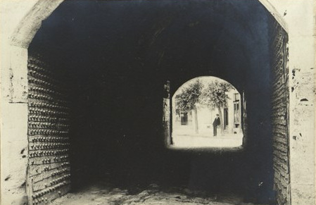 Bulgaria